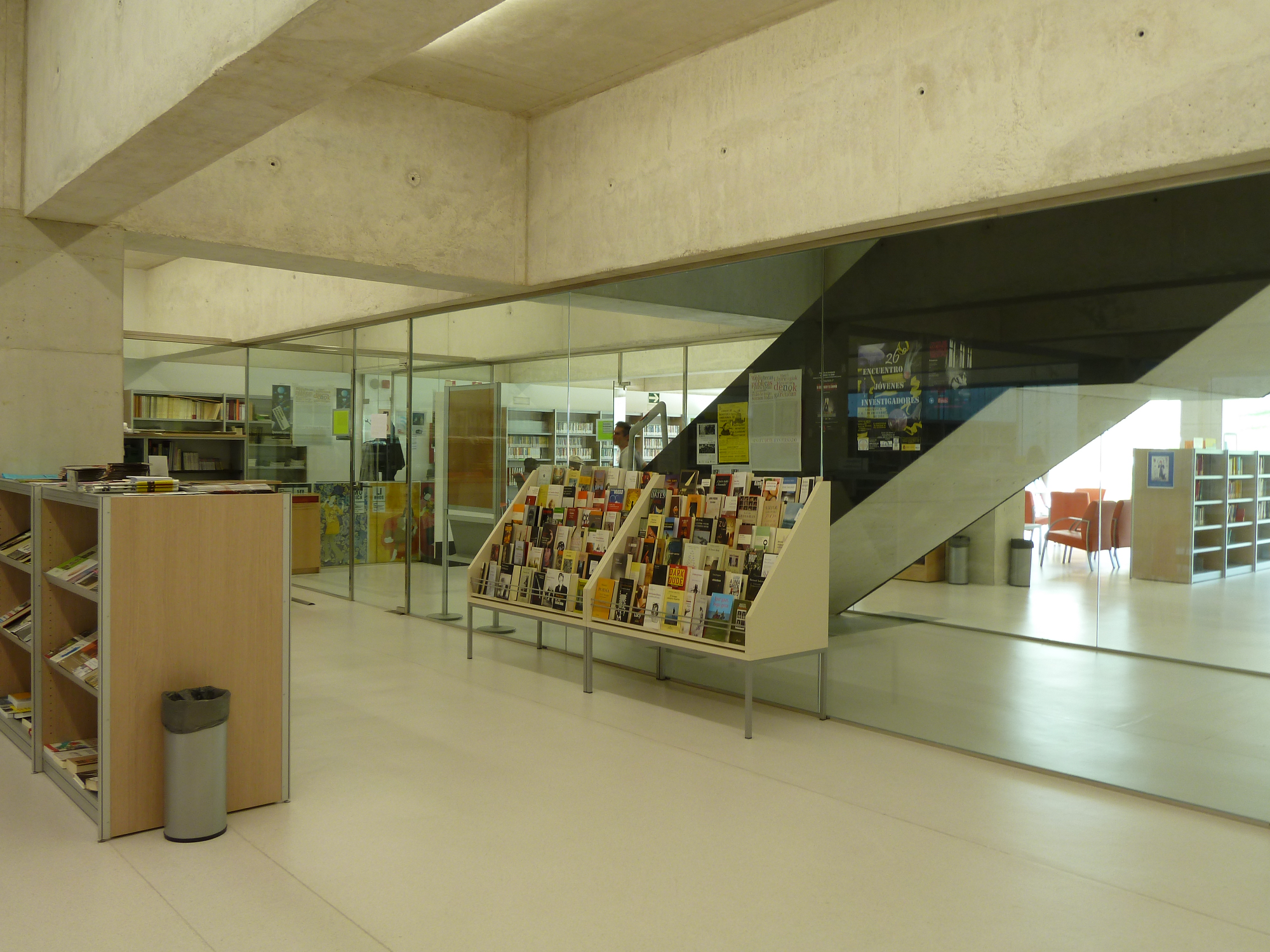 Public Library of San Jorge, a neighborhood of Pamplona/Iruñea. It was created in 1980, which was placed in the Public School San Jorge, to move in 2006 to its current hubicacion: Dr. Gortari Street 2. It is integrated into the Library Service of the Department of Culture and Tourism of the Government of Navarre. Also, the Pamplona City Council is also involved in its management through a collaboration agreement.